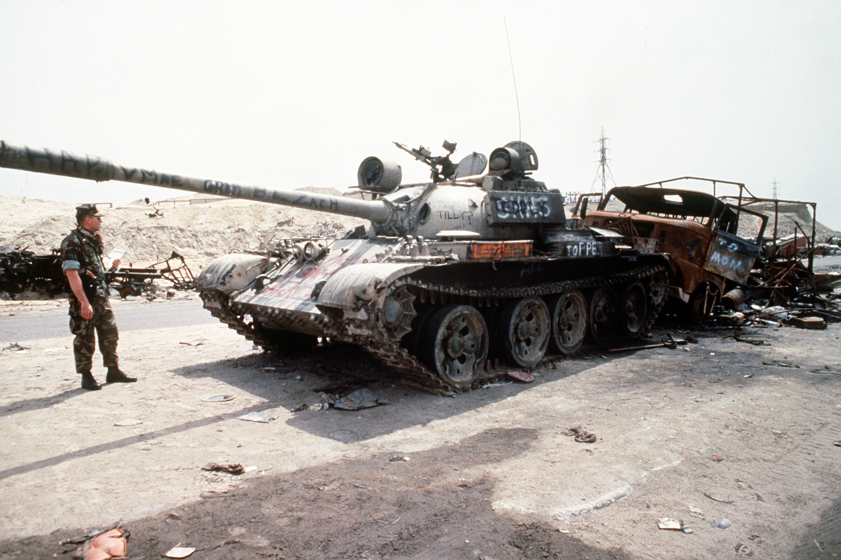 A destroyed Iraqi T-55 main battle tank and IFA supply truck, painted with graffiti by Coalition troops, lie along the highway between Kuwait City and Basra, Iraq, following the retreat of Iraqi forces from Kuwait during Operation Desert Storm. VIRIN: DF-ST-92-08468